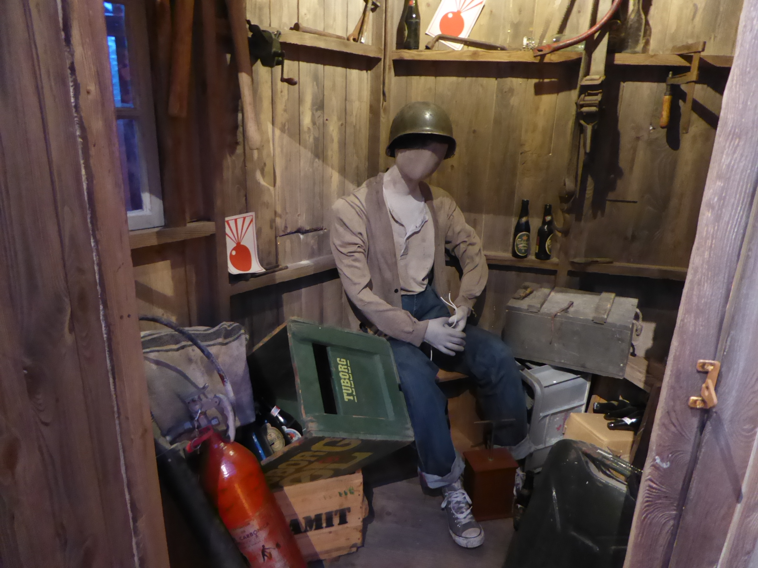 The exhibition Olsen-banden vender hjem at Nordisk Film in Copenhagen with reconstructions of film sets used in the Olsen-banden films. The character Dynamit-Harry in his home.